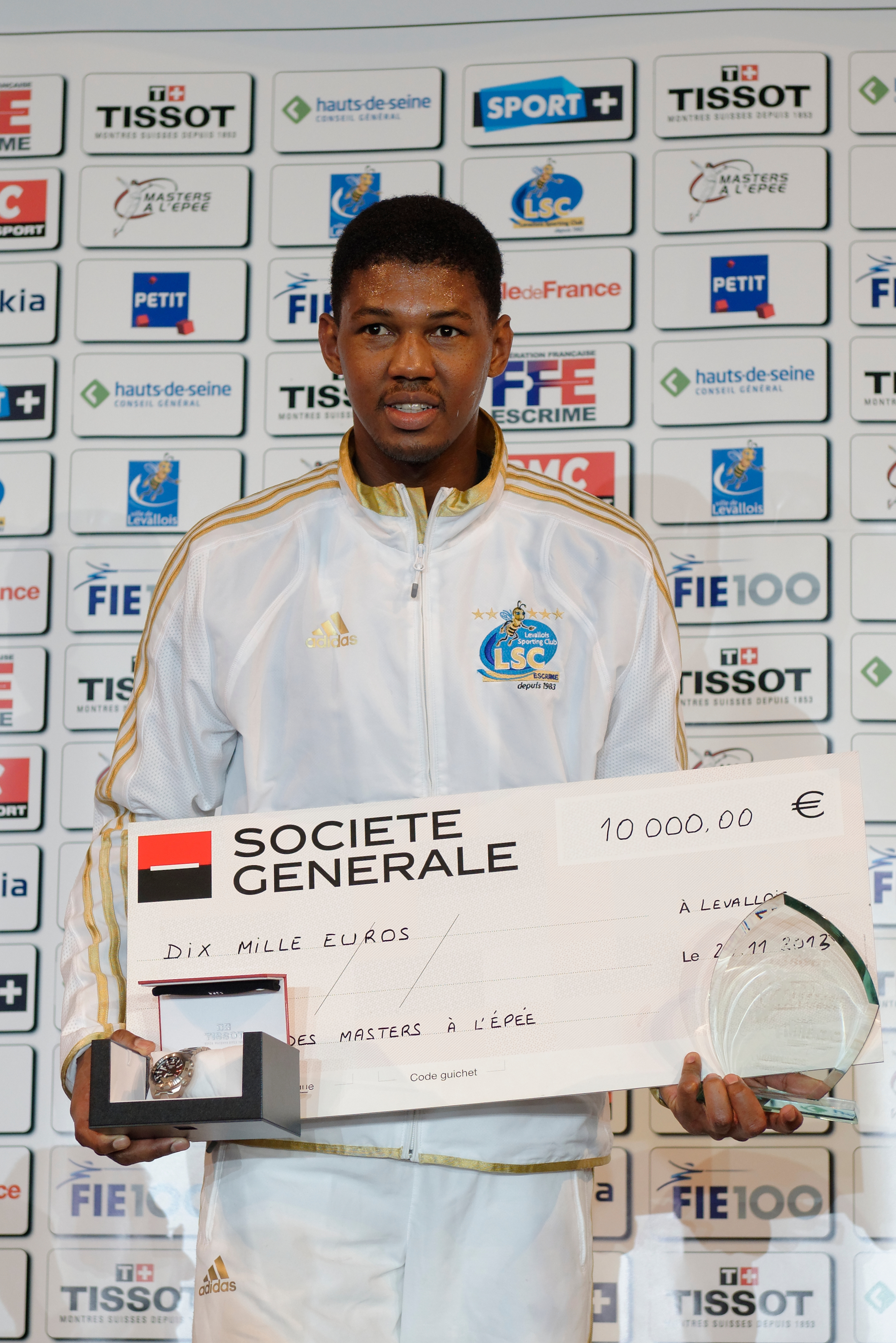 France's Ulrich Robeiri stands on the podium of the 2013 Masters à l'Epée.